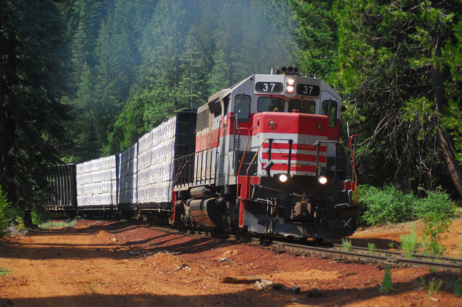 mcr37 harlow flat rd